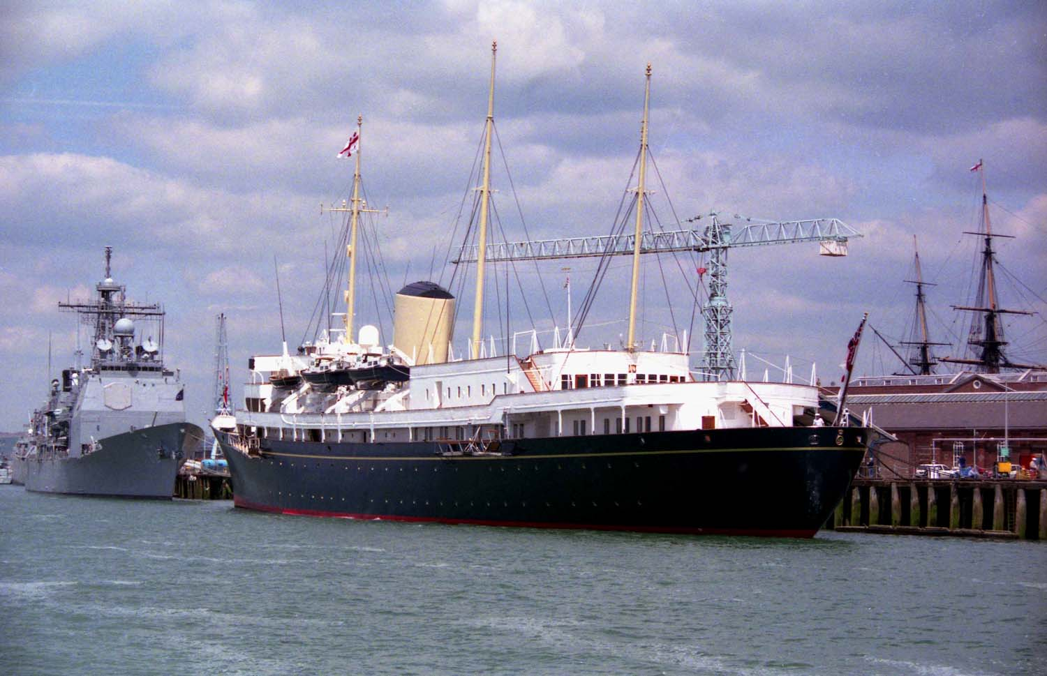 The Royal Yacht Britannia in Portsmouth The Royal Yacht Britannia was in Portsmouth for the 50th D-Day anniversary. It is now a tourist attraction in Leith near Edinburgh.